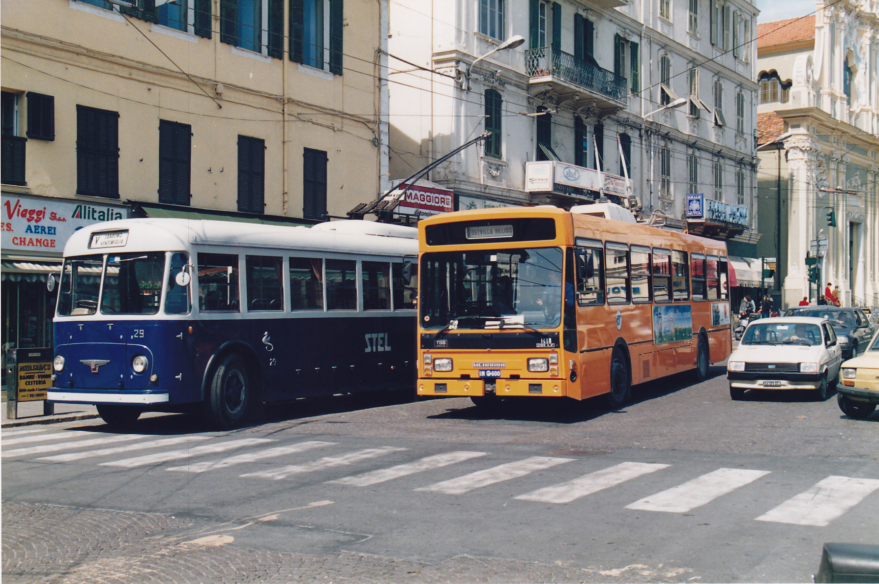 Trolleybus 1600 and heritage trolleybus 29 in Sanremo